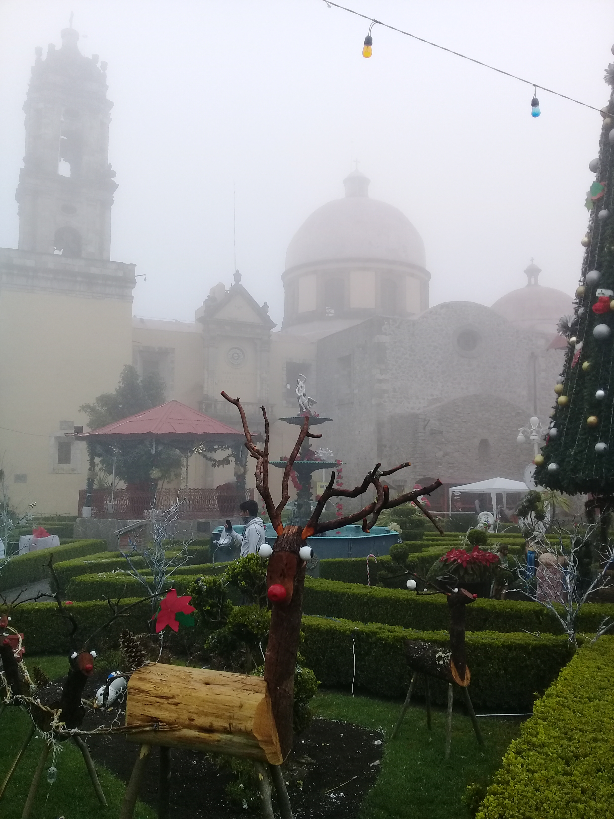 Mineral del Chico, Hidalgo, Mexico.